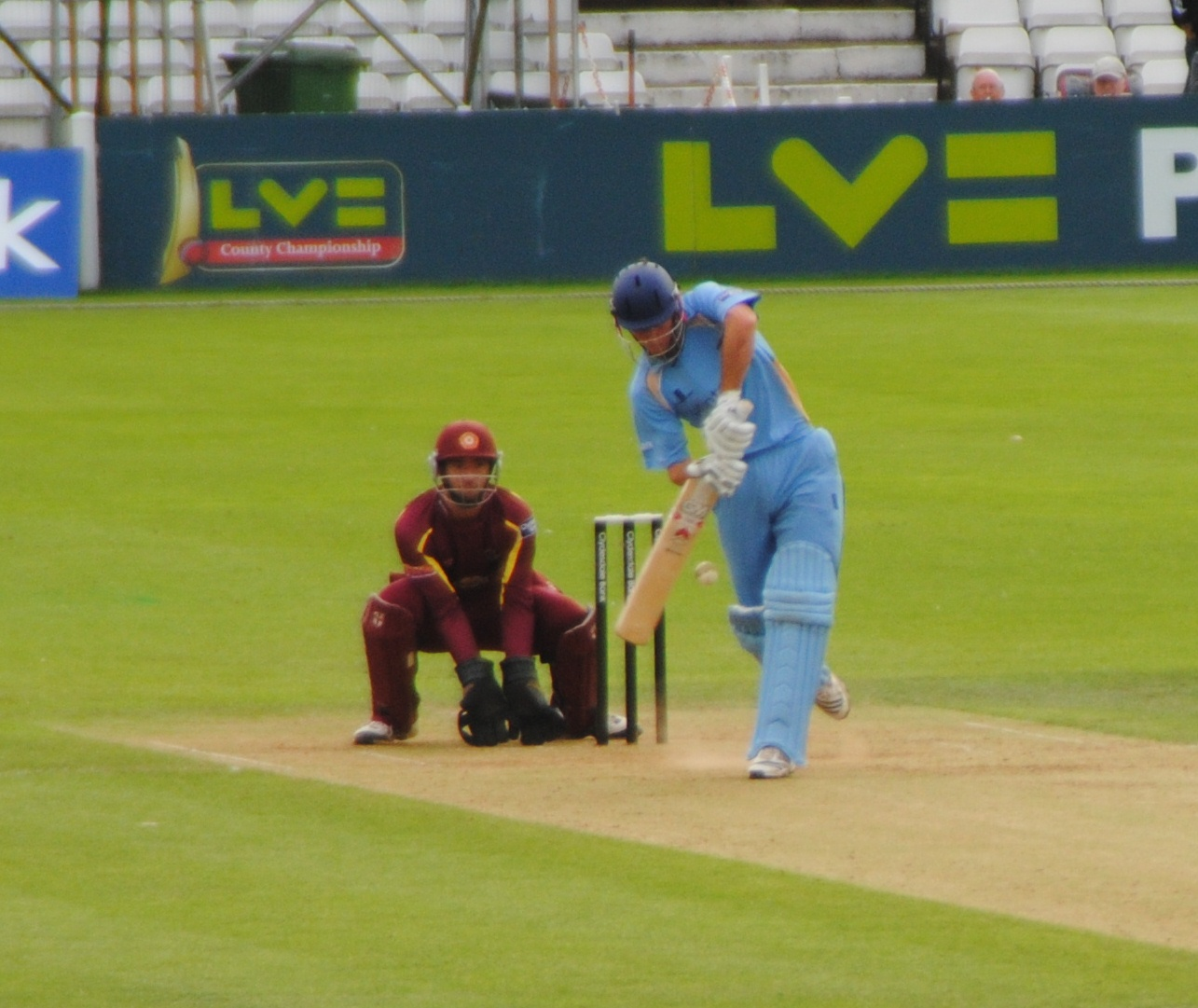 Murphy keeping for Northants against Derbyshire